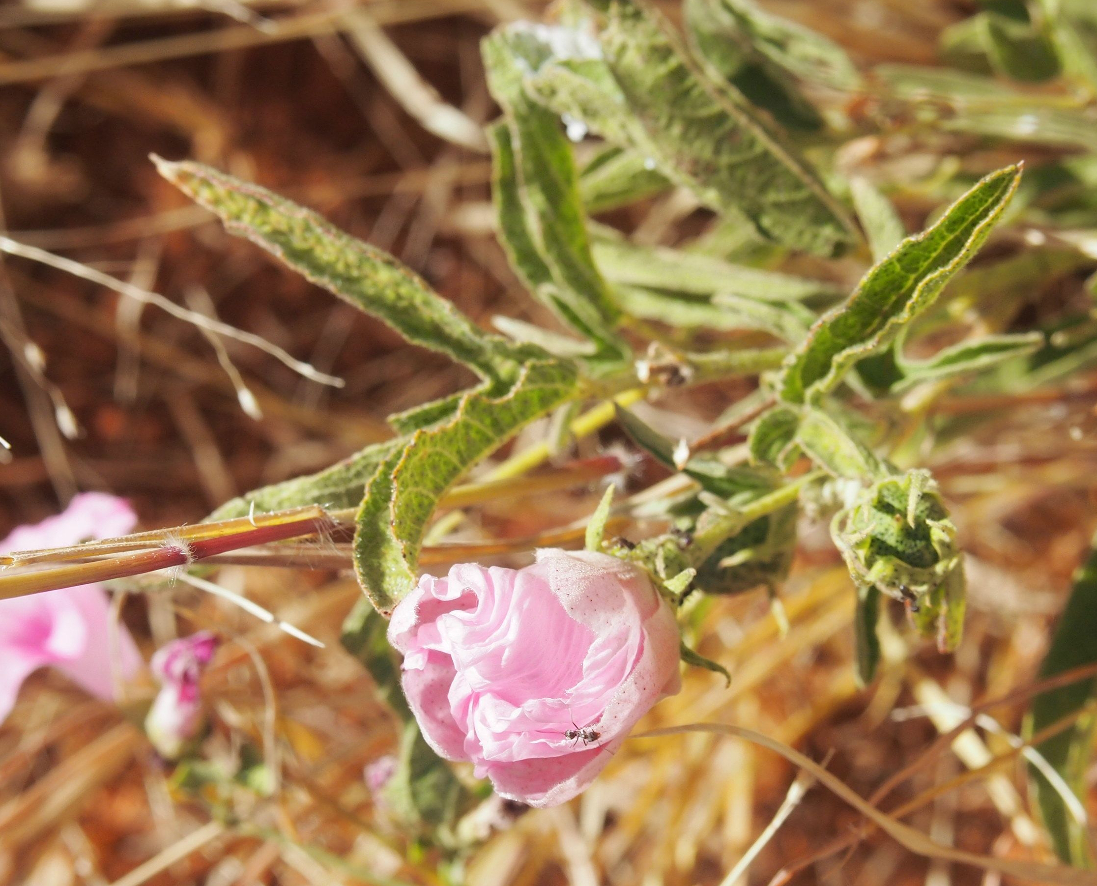 Gossypium bickii flower